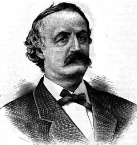 James F. Briggs, US Representative from New Hampshire